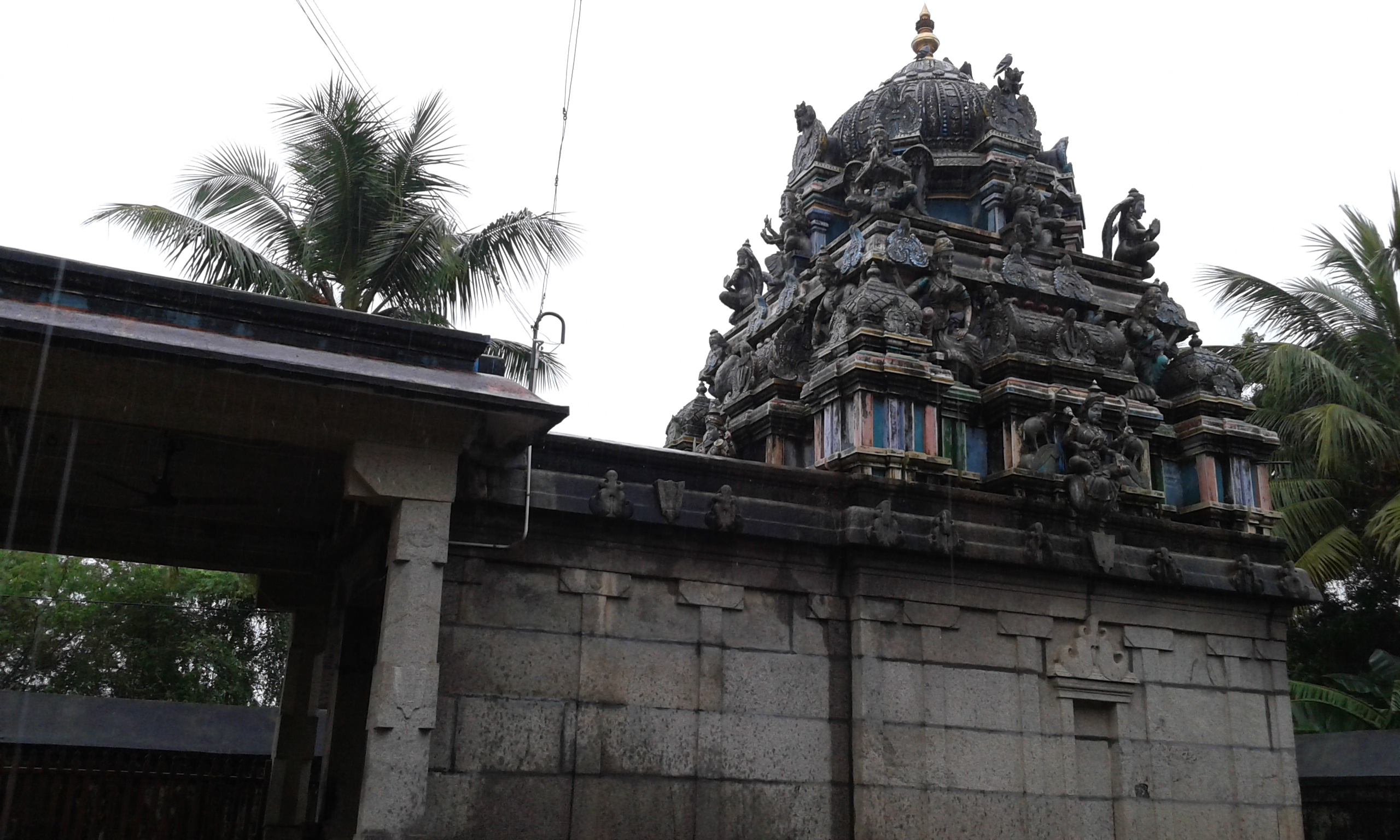 Thirukkavalampadi